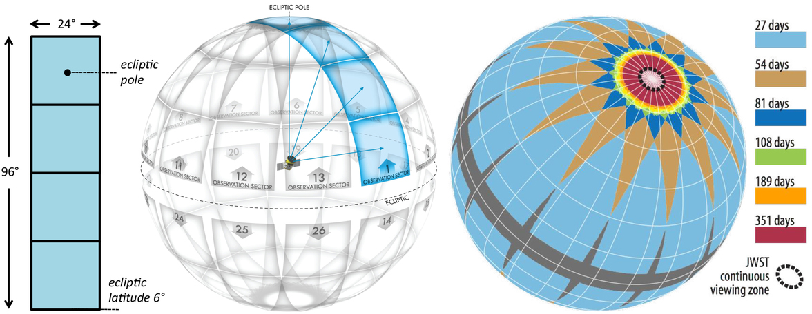 Left: the instantaneous combined field of view of the four TESS cameras. Middle: suddivision of the celestial sphere into 26 observation sectors (13 per hemisphere). Right: Duration of observations on the celestial sphere, taking into account the overlap between sectors. The dashed black circle enclosing the ecliptic pole shows the region which JWST will be able to observe at any time.